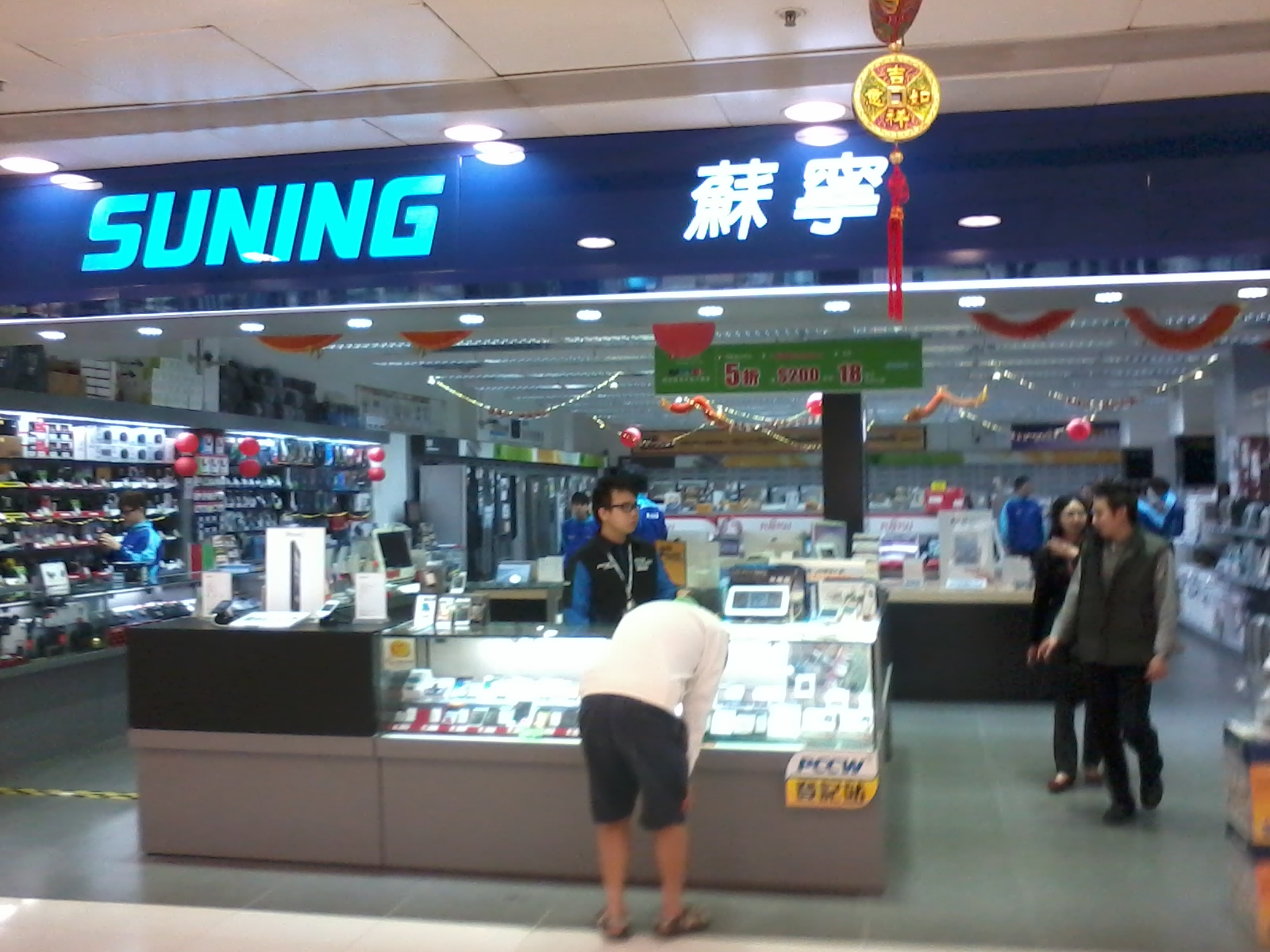 大埔超級城, Tai Po Mega Mall, Tai Po Centre, Tai Po, Hong Kong